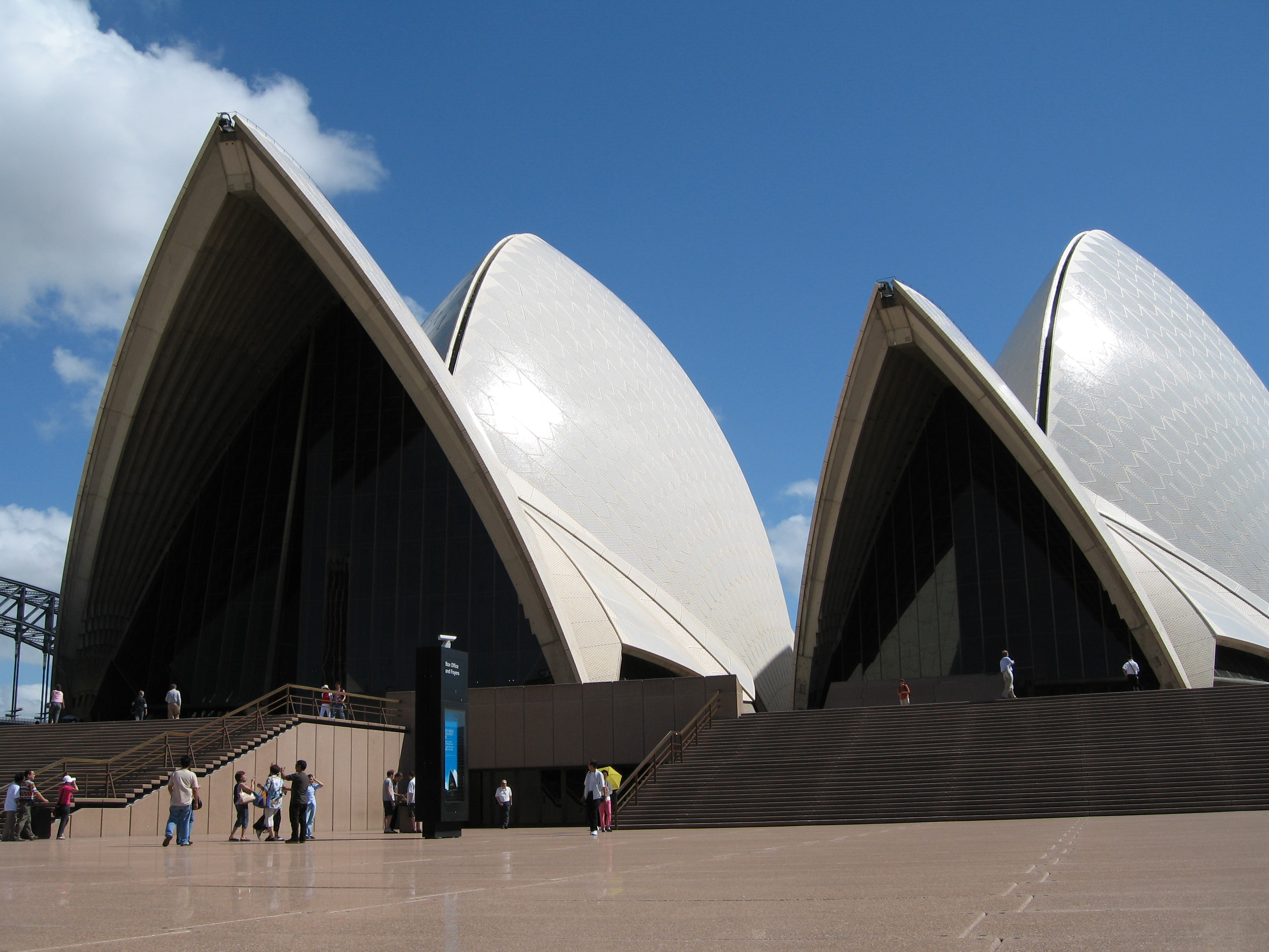 Sydney Opera House, Sydney, Australia.